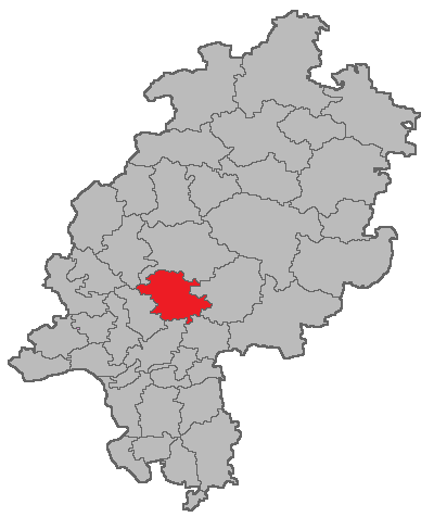 Map of the district court Friedberg (Hesse) in Hesse